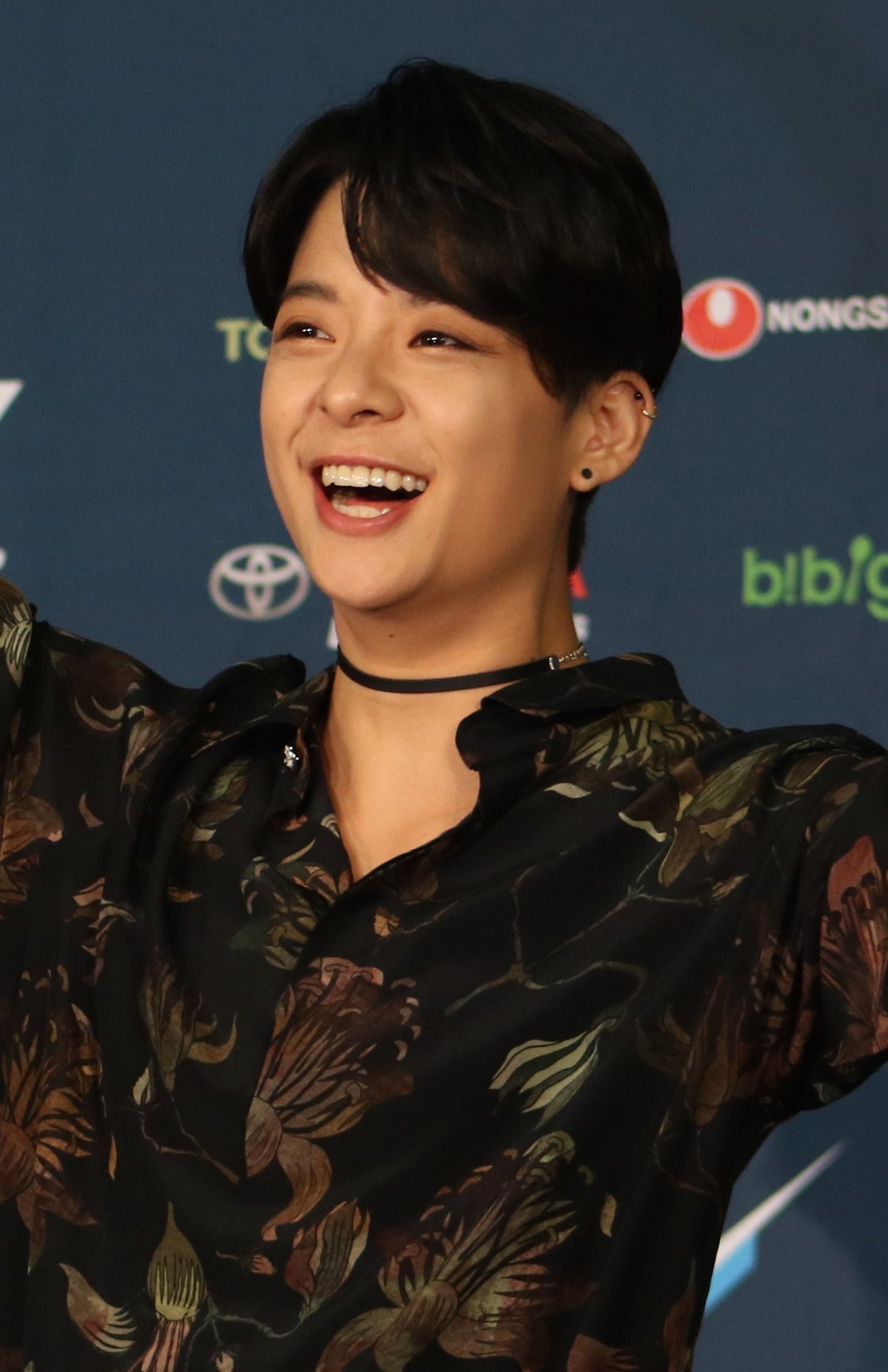 Amber at the KCON LA 2016 Red Carpet